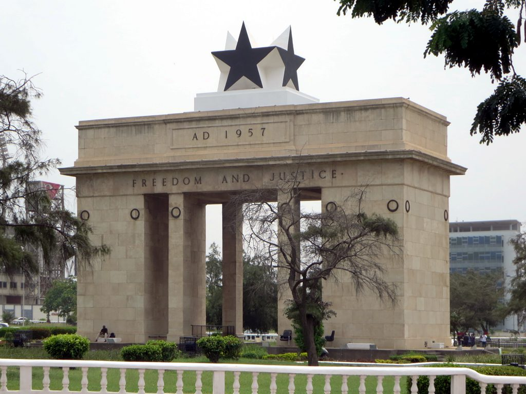 The Black Star Gate on Independence Square, Accra, commemorates the 1957 independence of Ghana.